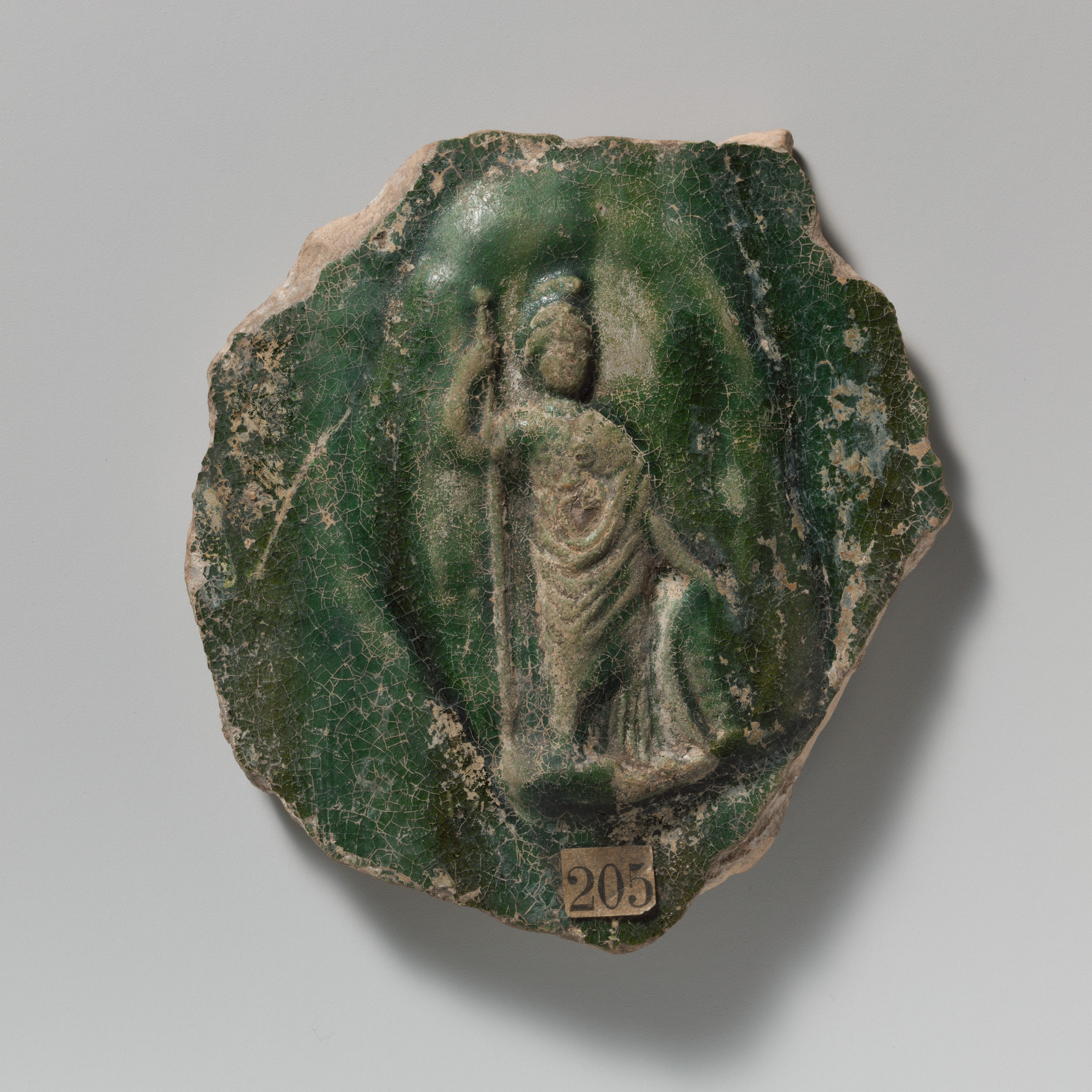 Roman, Terracotta vase fragment with relief of Minerva, 1st century A.D., Terracotta, width 3 1/2in. (8.9cm). The Metropolitan Museum of Art, New York. Gift of J. Pierpont Morgan, 1917 (17.194.1702)